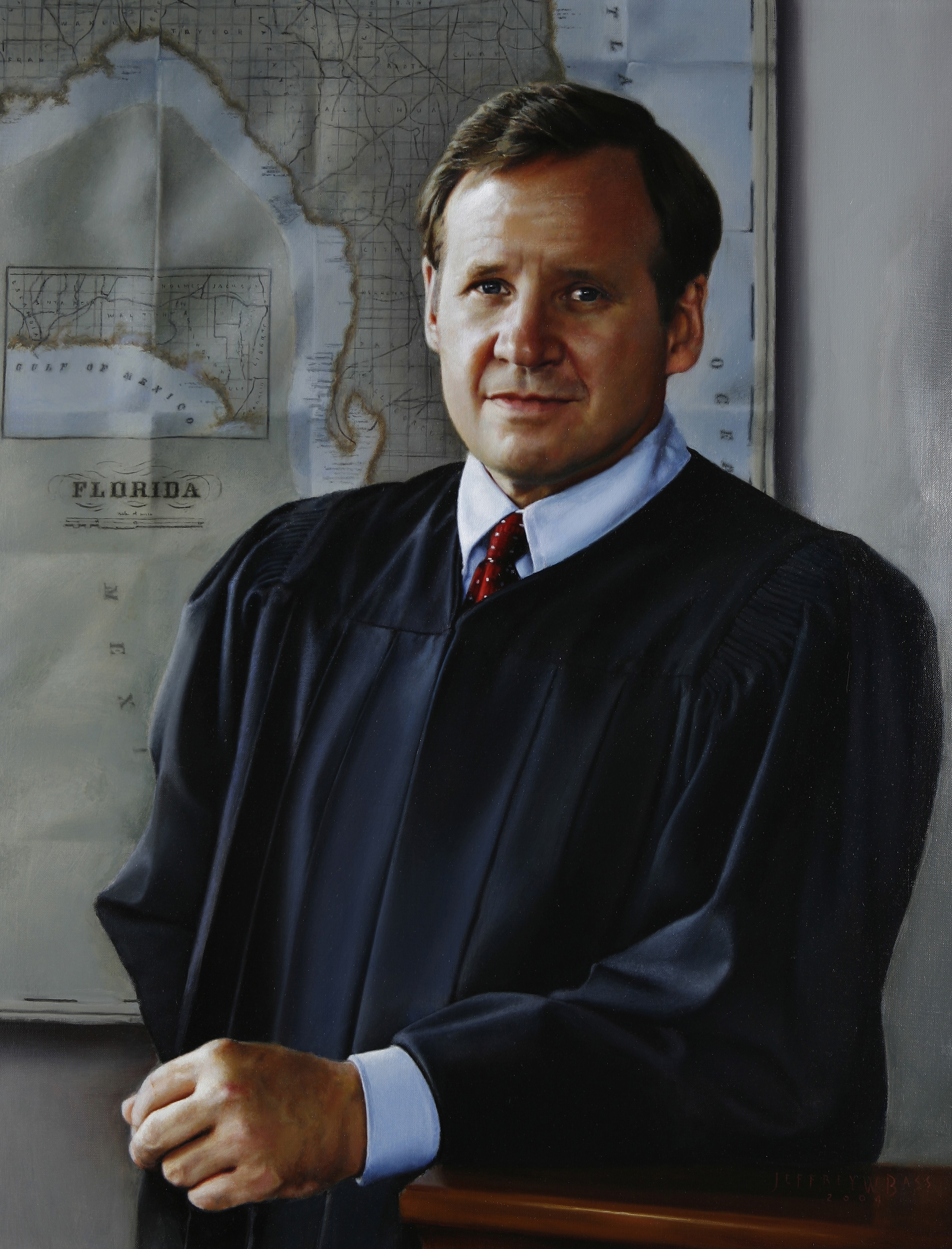 Portrait of Justice Kenneth Bell by Jeffrey W. Bass: [1]